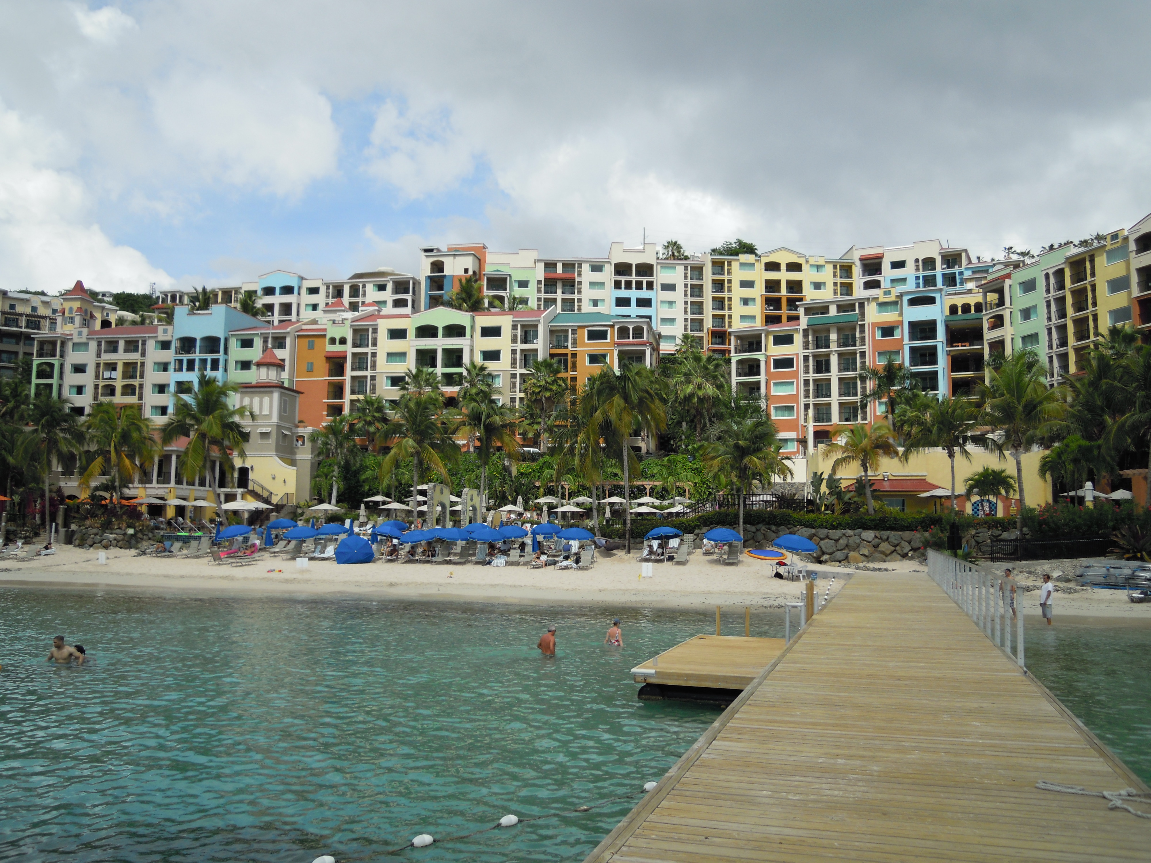 Marriott Vacation Club resort - Frenchman's Cove - USVI